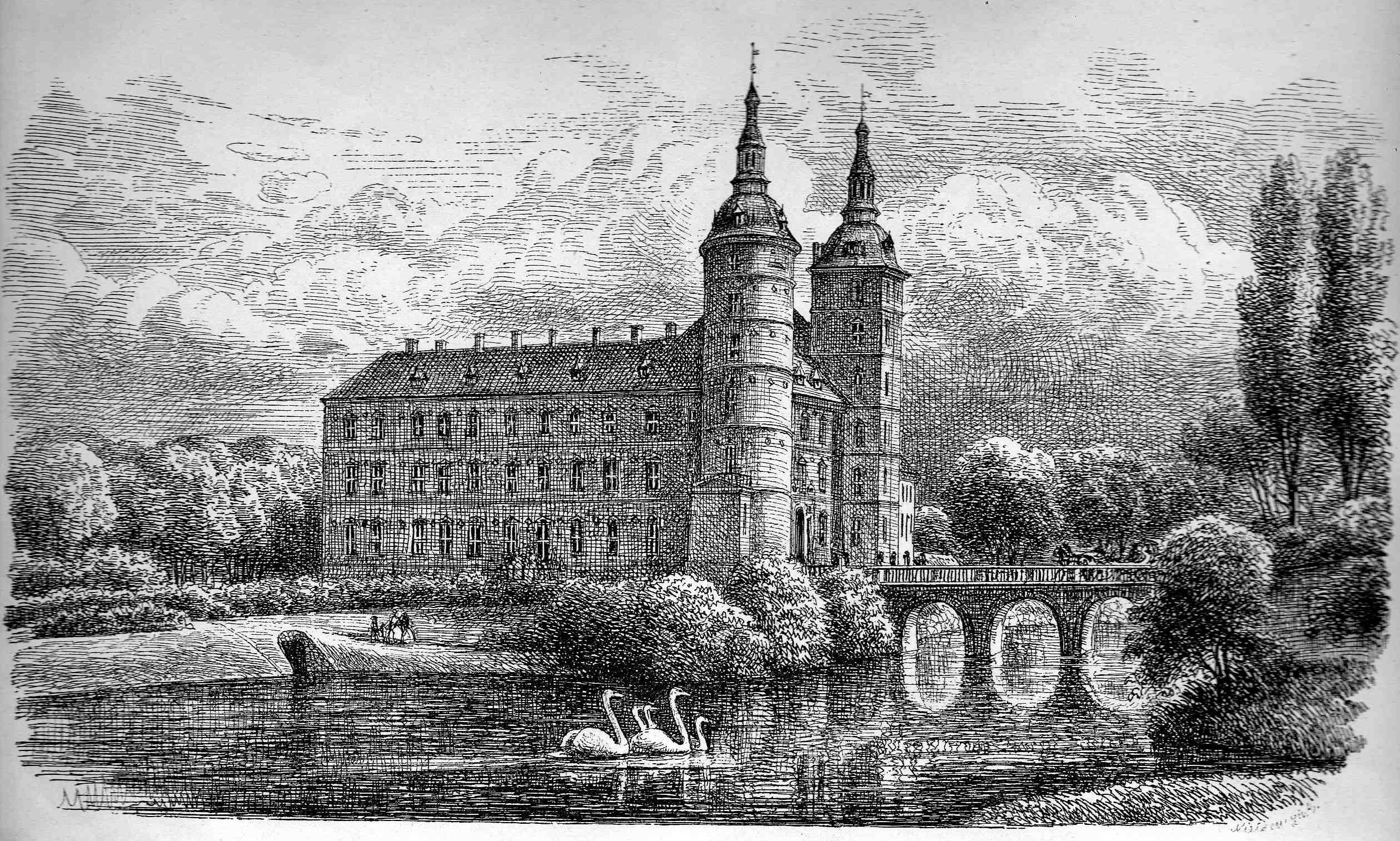 Scanned by myself from the old book in 2007. The book was graciously lent to me by Det Kongelige Garnisonsbibliotek.